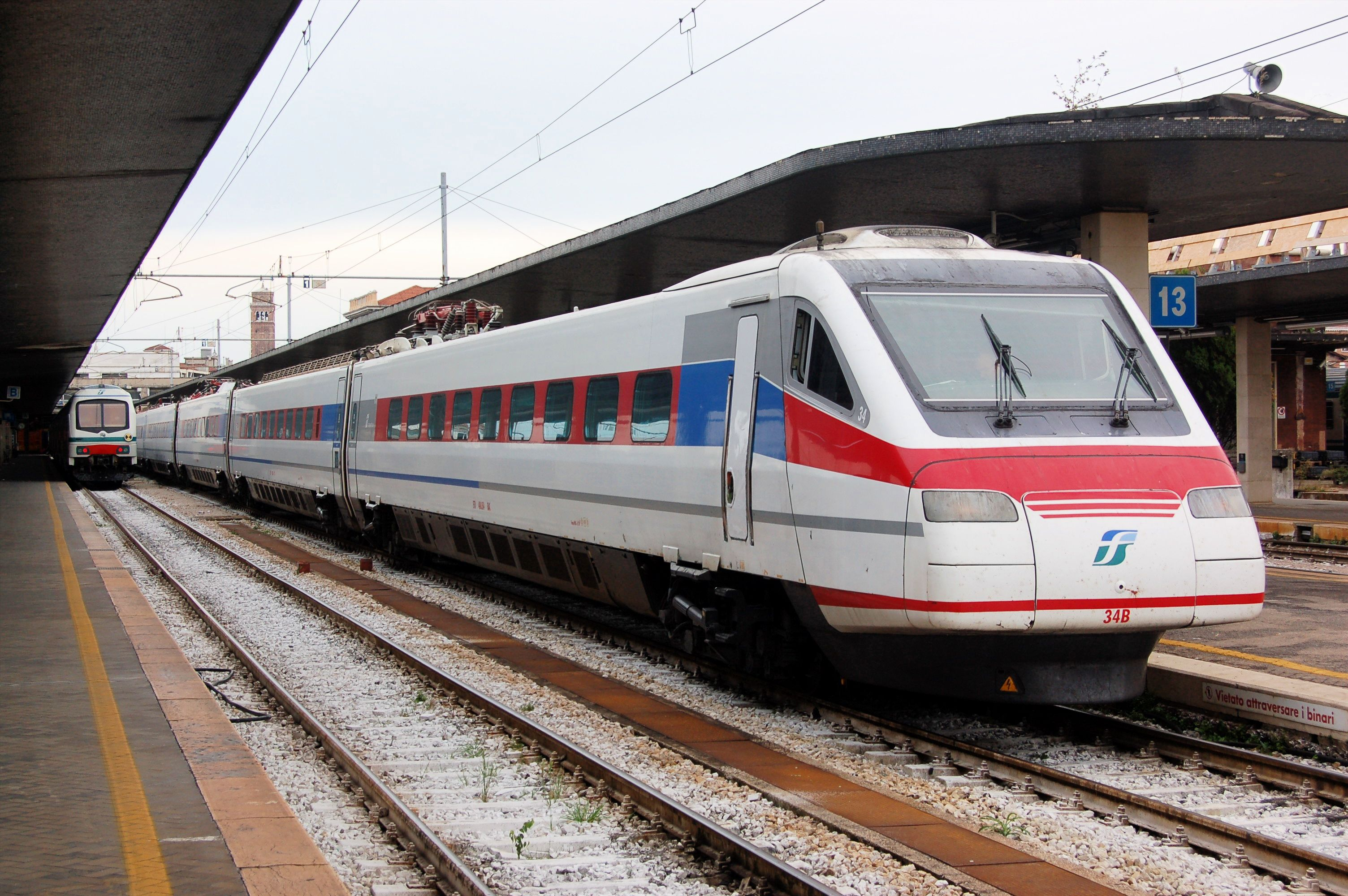 A Trenitalia electric multiple unit of type ETR 460 at Venezia Santa Lucia, Italy.